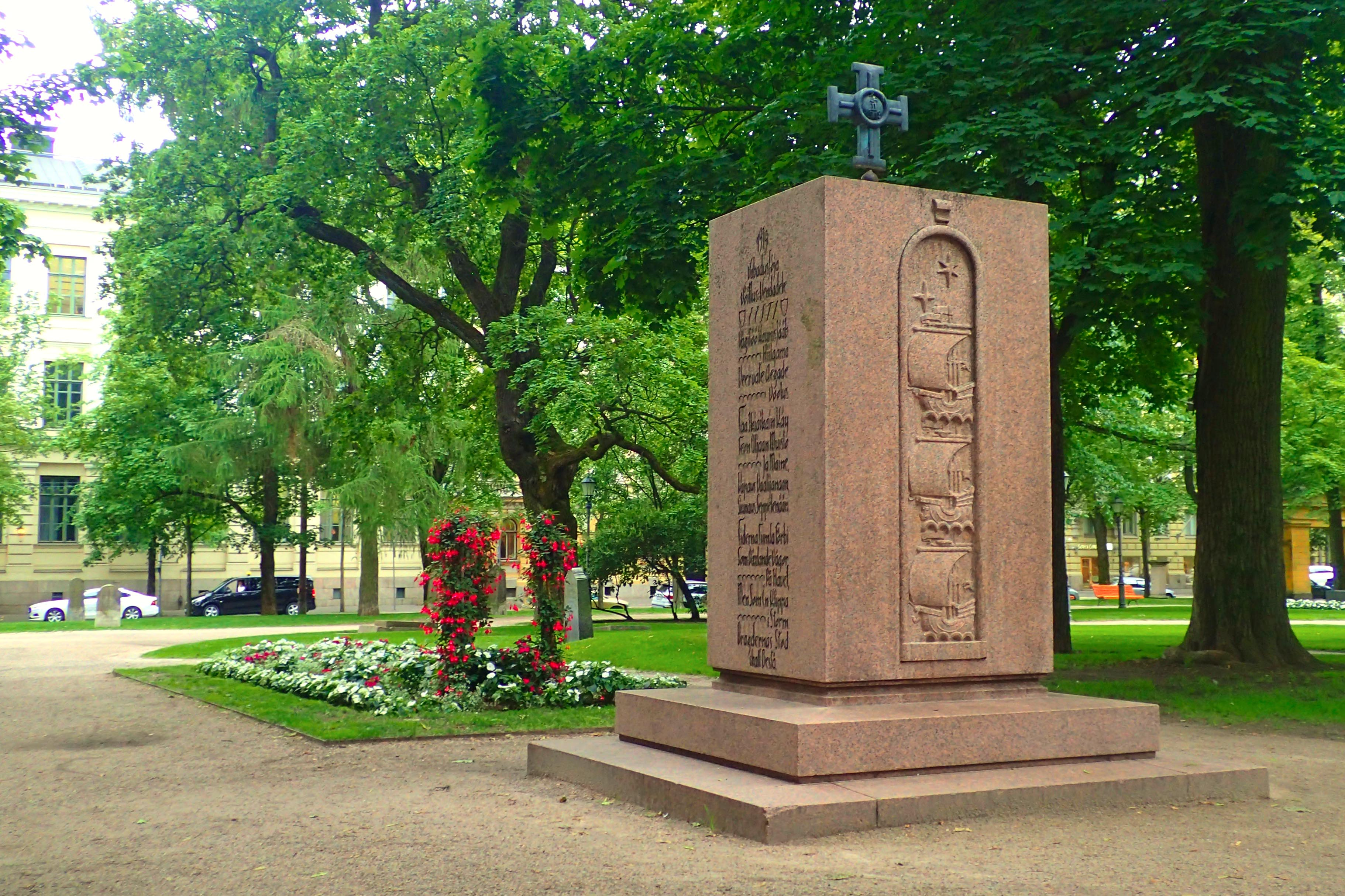 Military grave for 31 Finnish volunteers who fell during the Estonian War of Independence in 1919. Their memorial was unveiled in 1923.